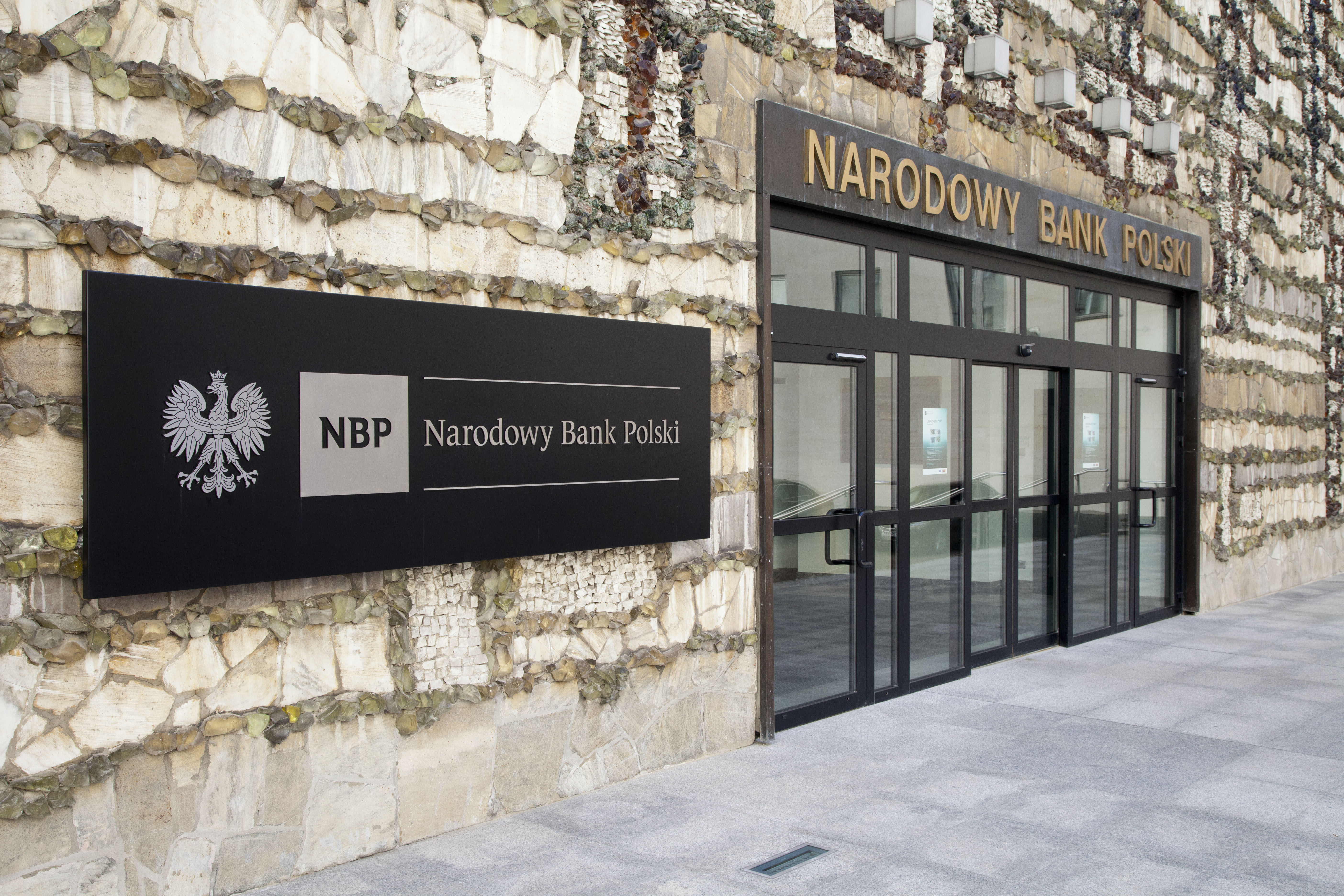 The entrance to the headquarters of the National Bank of Poland